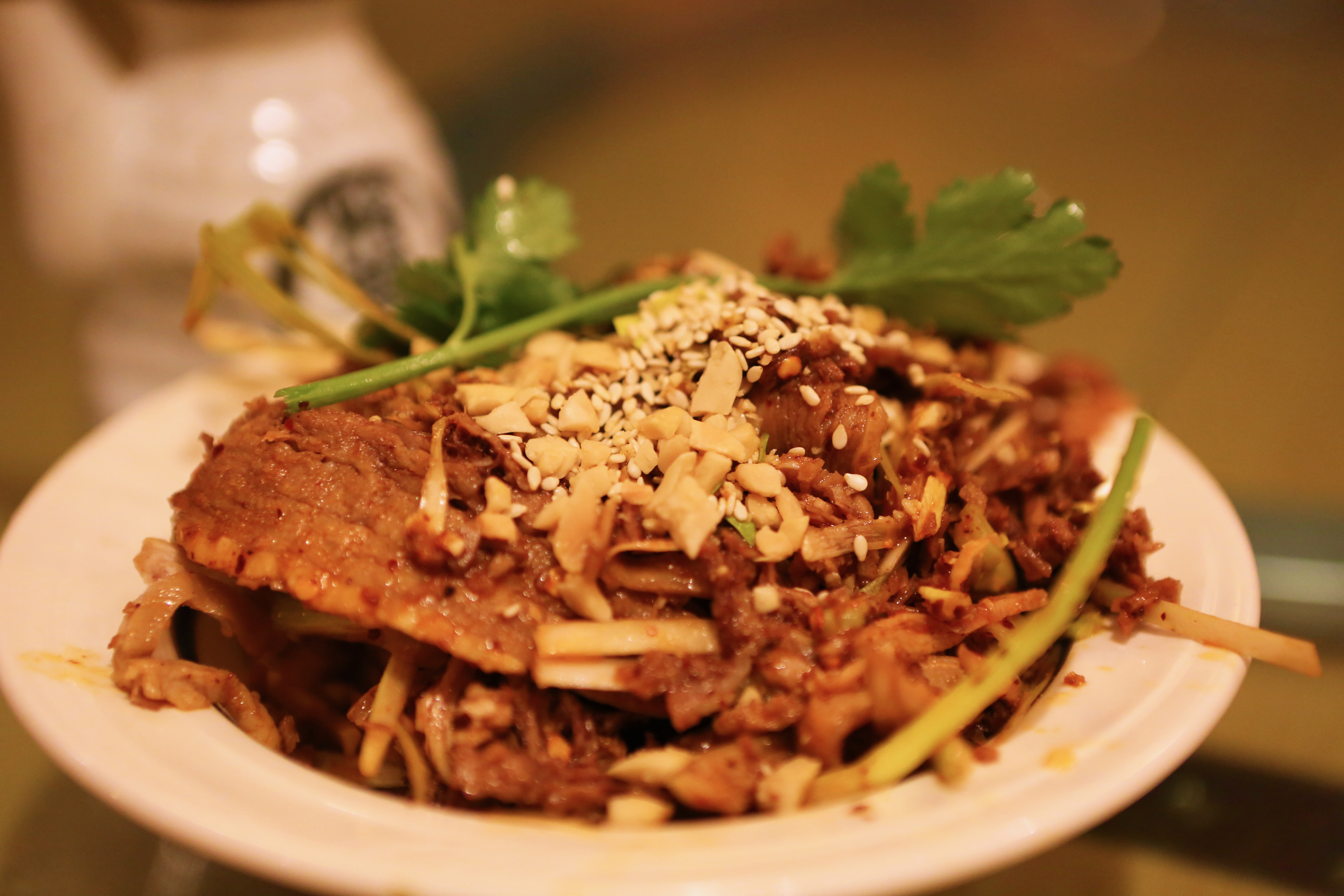 A still life photograph of a Chinese dish using the technique of selective focus.